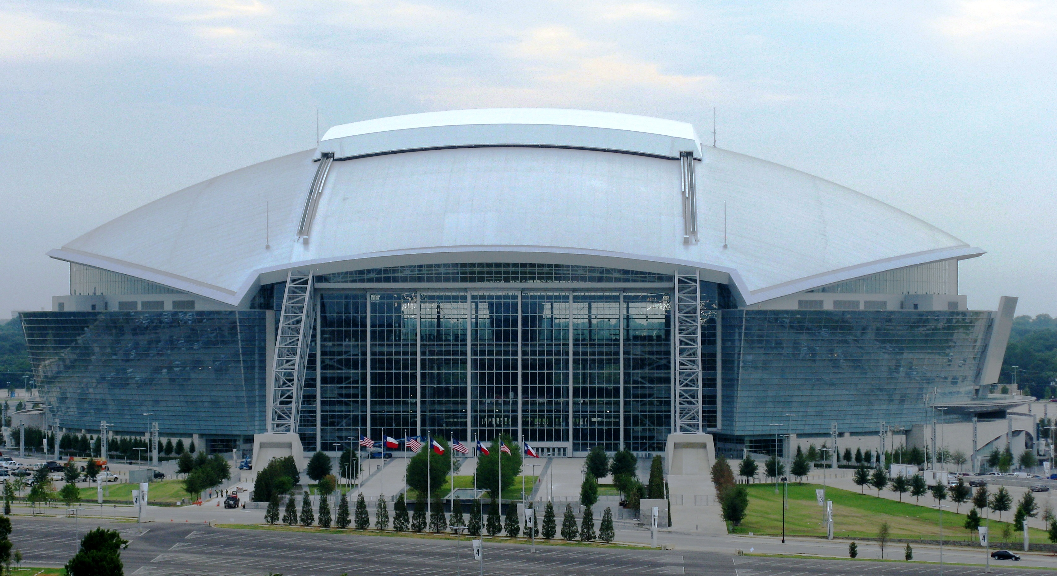 This is a picture of "Cowboys Stadium" I took myself when attending a Texas Rangers game. The picture was actually taken sitting in the last row of Section 335 at Rangers Ballpark in Arlington and turning around backwards.